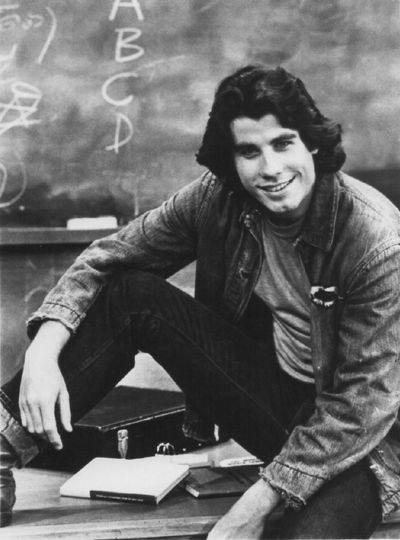 Publicity photo of American actor John Travolta promoting his role on the ABC television series Welcome Back, Kotter.